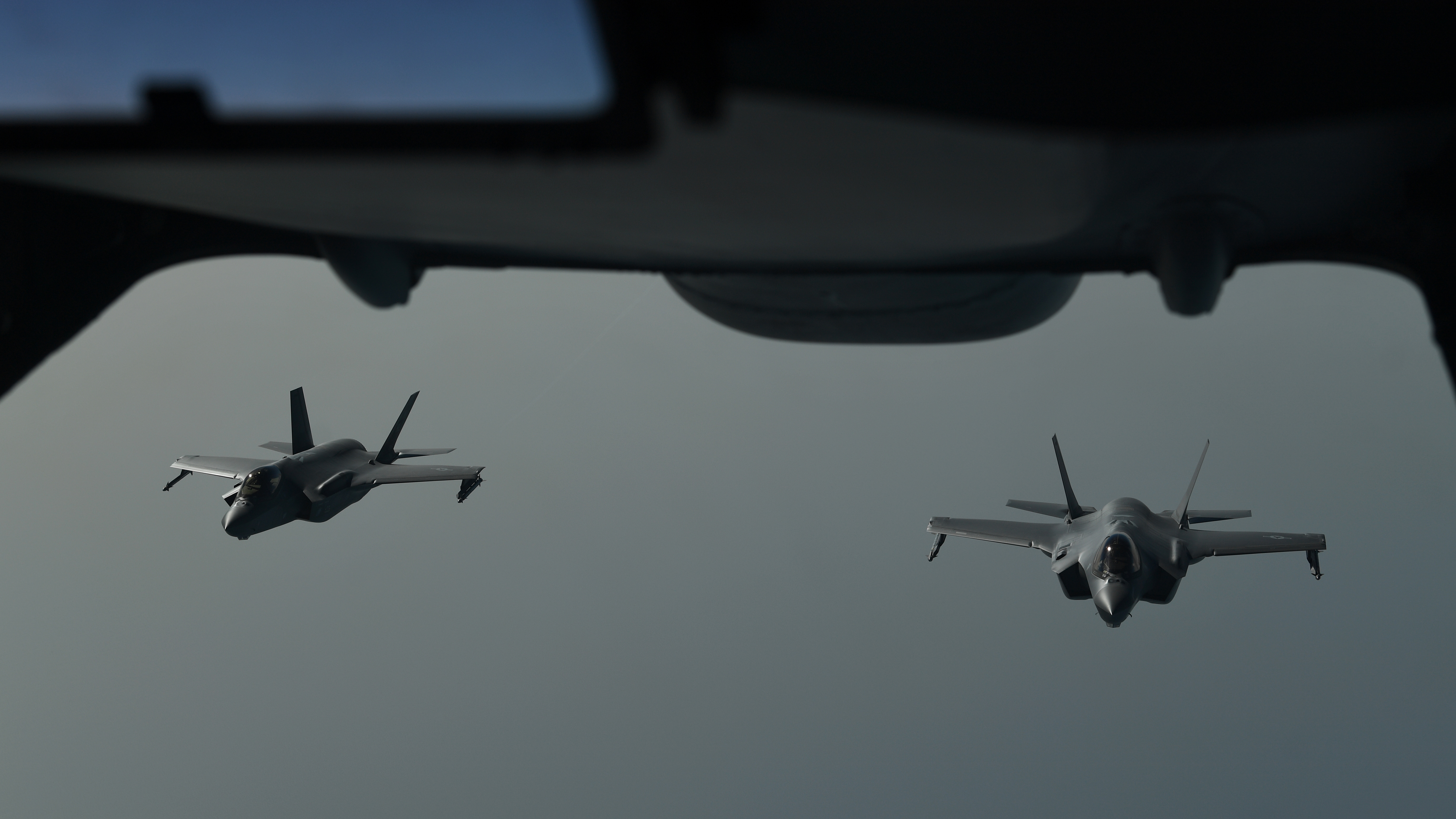 Two U.S. Air Force F-35A Lightning IIs assigned to the 4th Expeditionary Fighter Squadron out of Al Dhafra Air Base, United Arab Emirates, fly in formation behind a KC-10 Extender from the 908th Expeditionary Aerial Refueling Squadron above an undisclosed location on April 26, 2019. The KC-10 and its crew performed aerial refueling for the first combat sortie of the F-35A, which is also carrying out it's inaugural deployment to the U.S. Air Forces Central Command's area of responsibility.